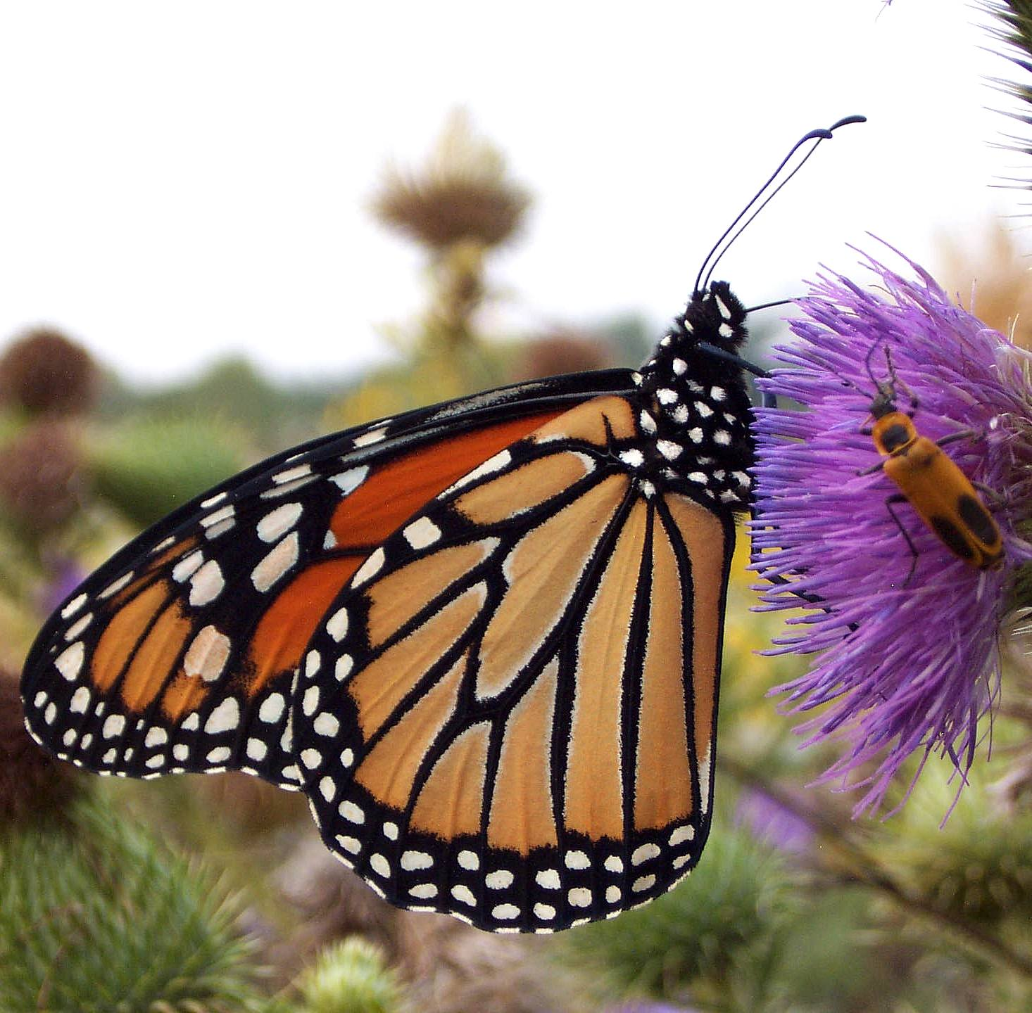 Adult Monarch Danaus plexippus butterfly, taking nectar at a Spear Thistle Cirsium vulgare. Shown with soldier beetle Chauliognathus sp. Photographed at Morton Arboretum, Lisle, Illinois.